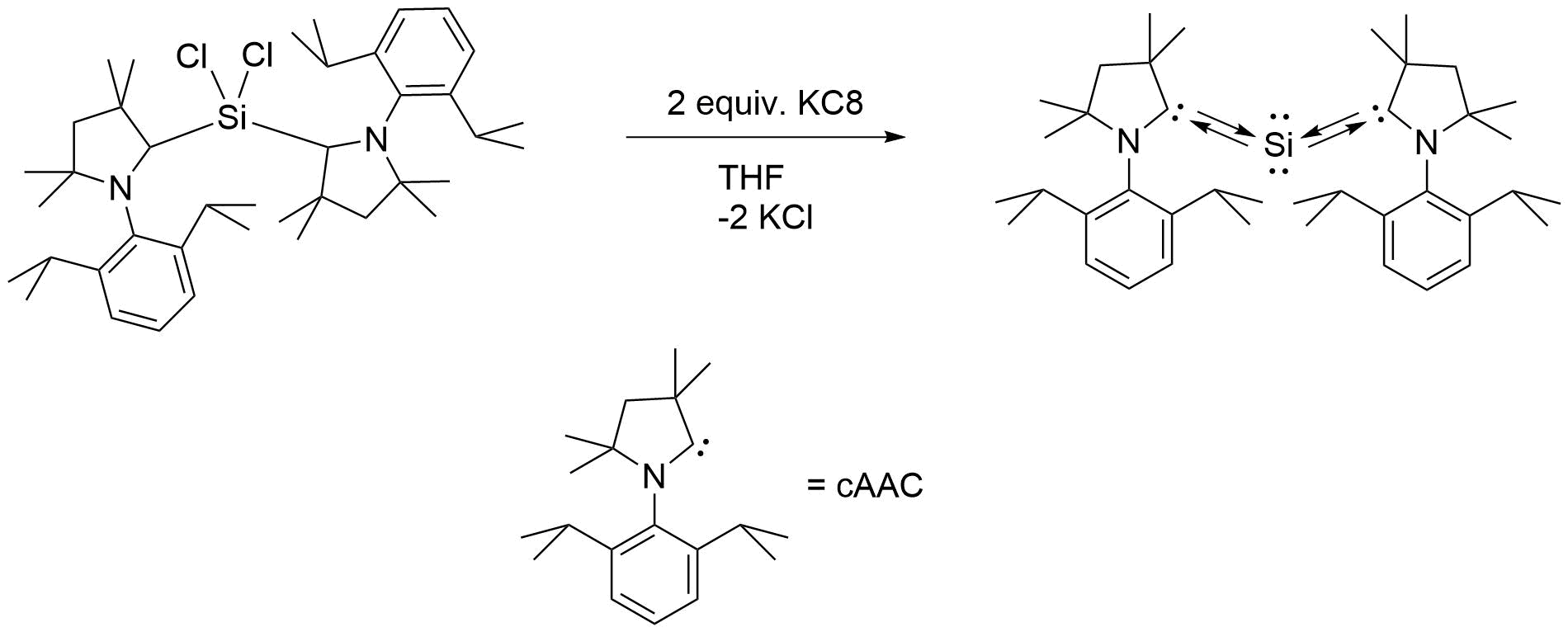 Schematic of cAAC-stabilized silylone synthesis, reproduced from Figure 3 of Mondal et al. (10.1002/anie.201208307)